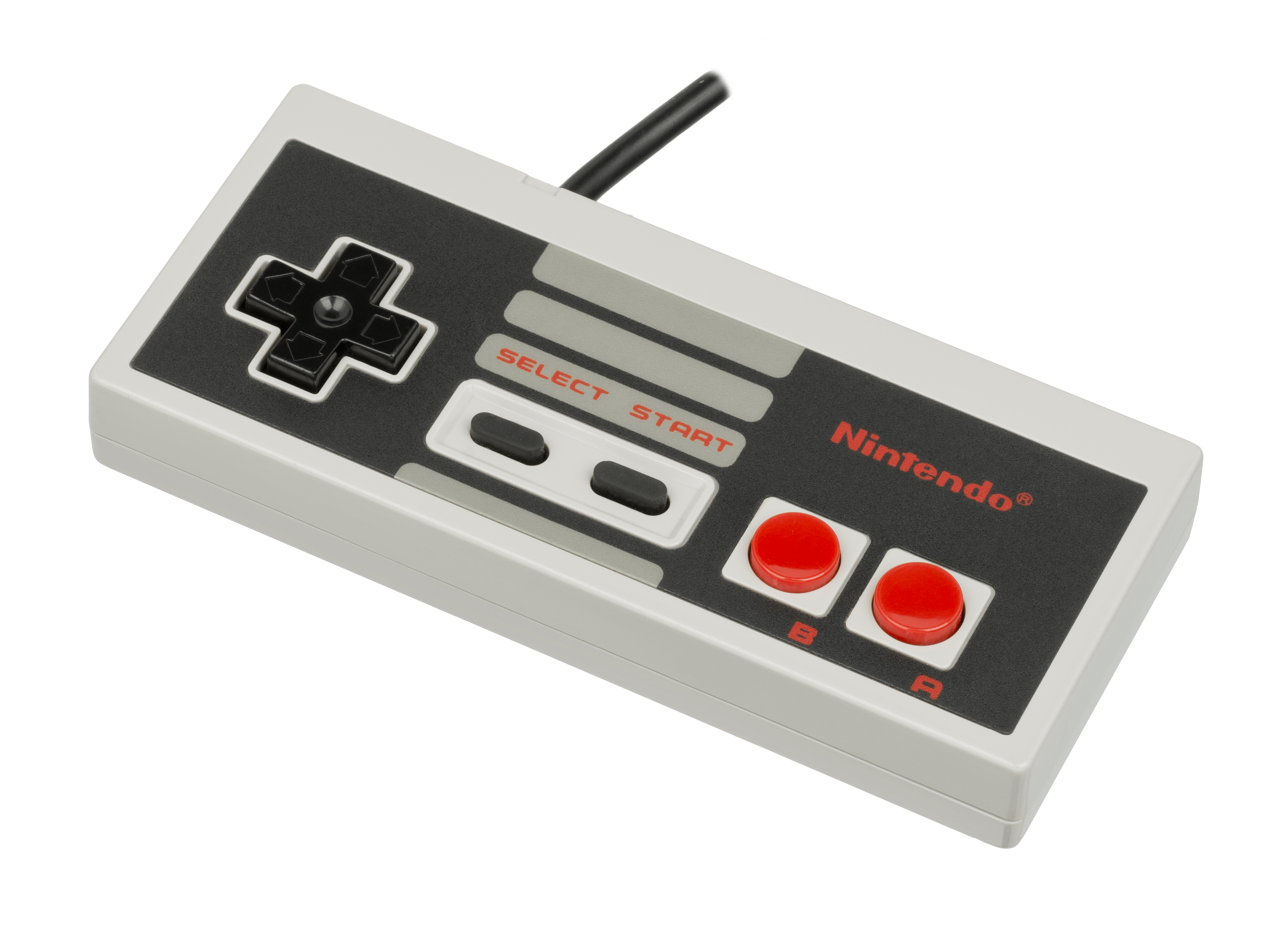 The standard controller for the Nintendo Entertainment System / NES video game console, released in 1985.